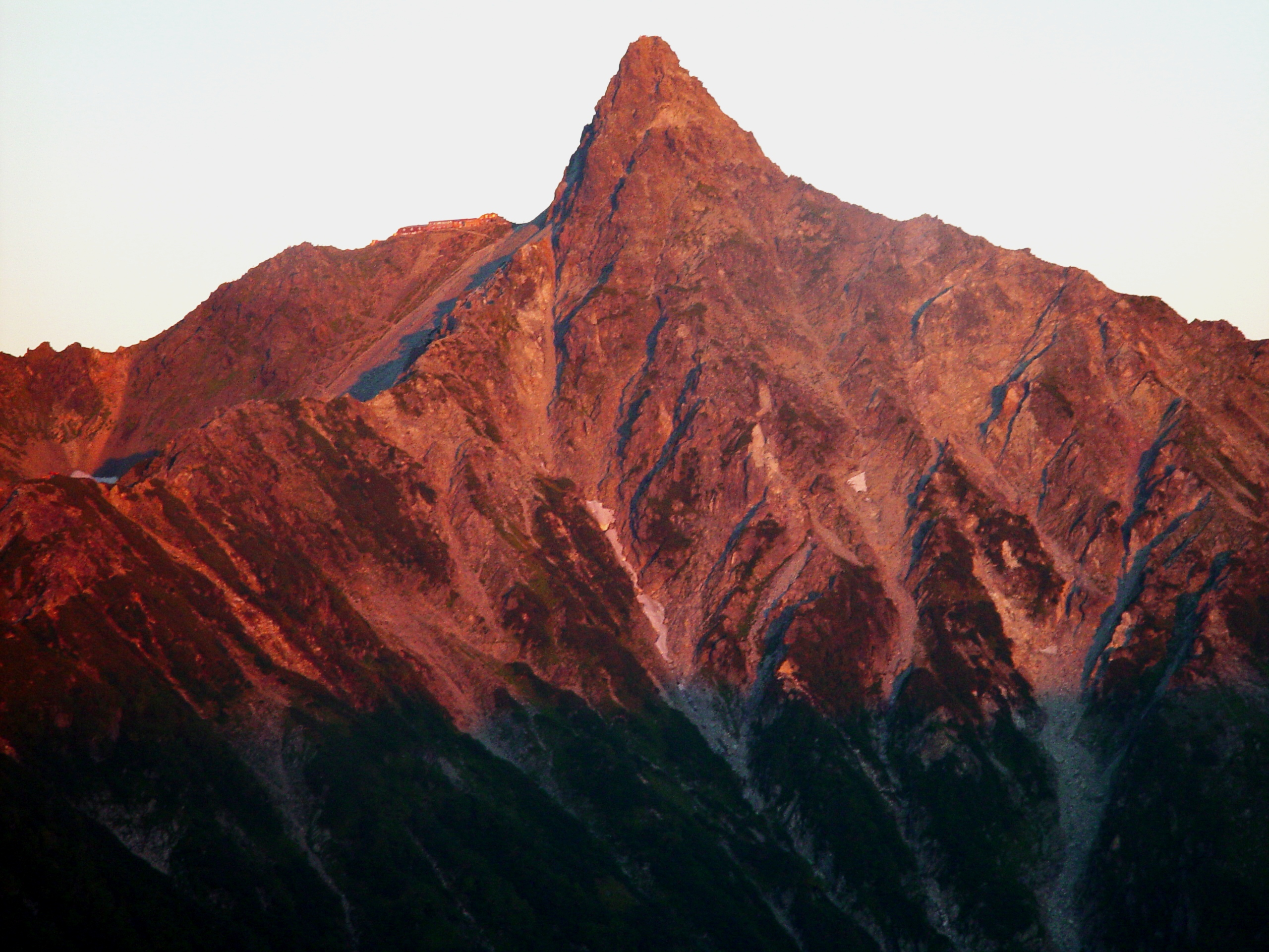 Mount Yari, Morgenrot from Mount Nishi on sunrise